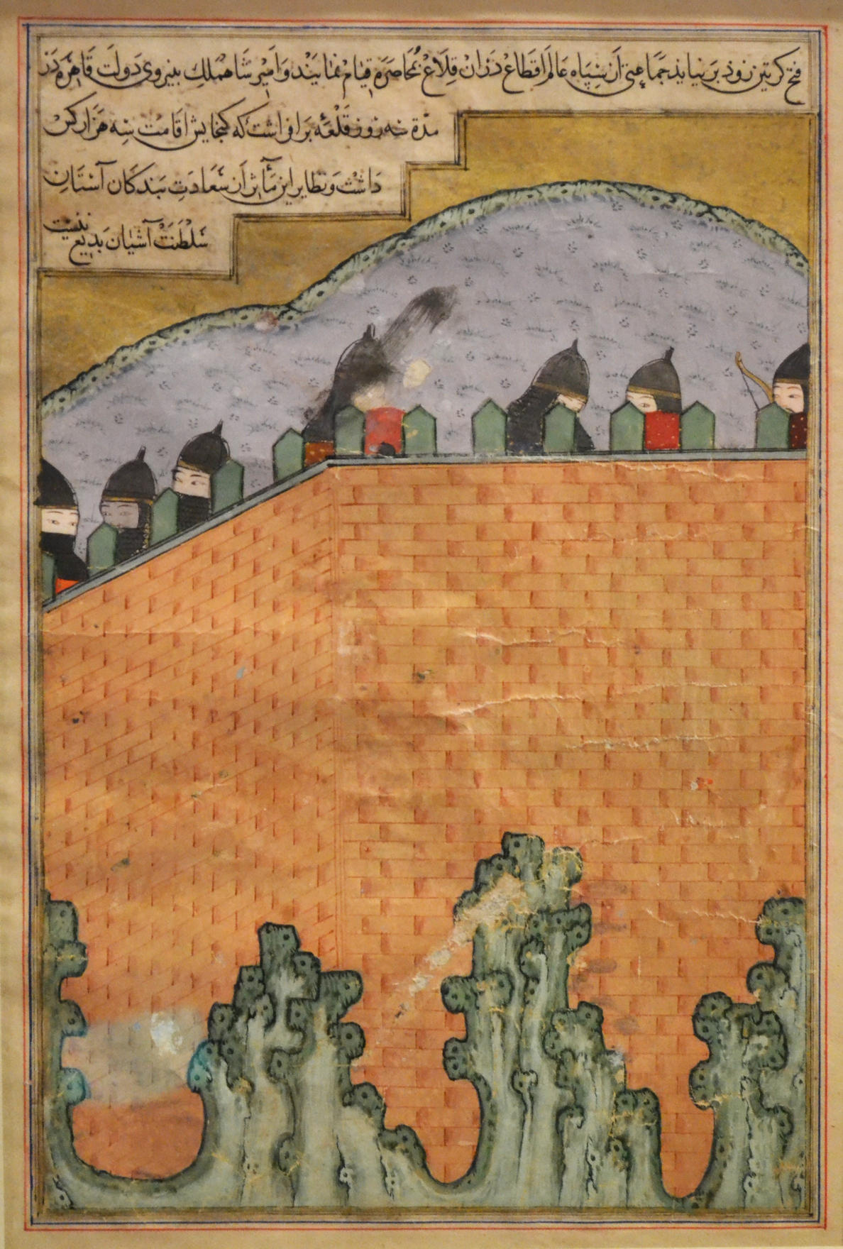 Sharaf al-Din Ali Yazdi. Timur besieges the Georgian Castle of Gorin. Miniature manuscripts (15th century)